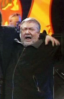 2001 год. Юбилейный концерт группы Цветы. Песня "Мы желаем счастья вам". Сергей Соловьёв поёт "Мы желаем счастья вам"